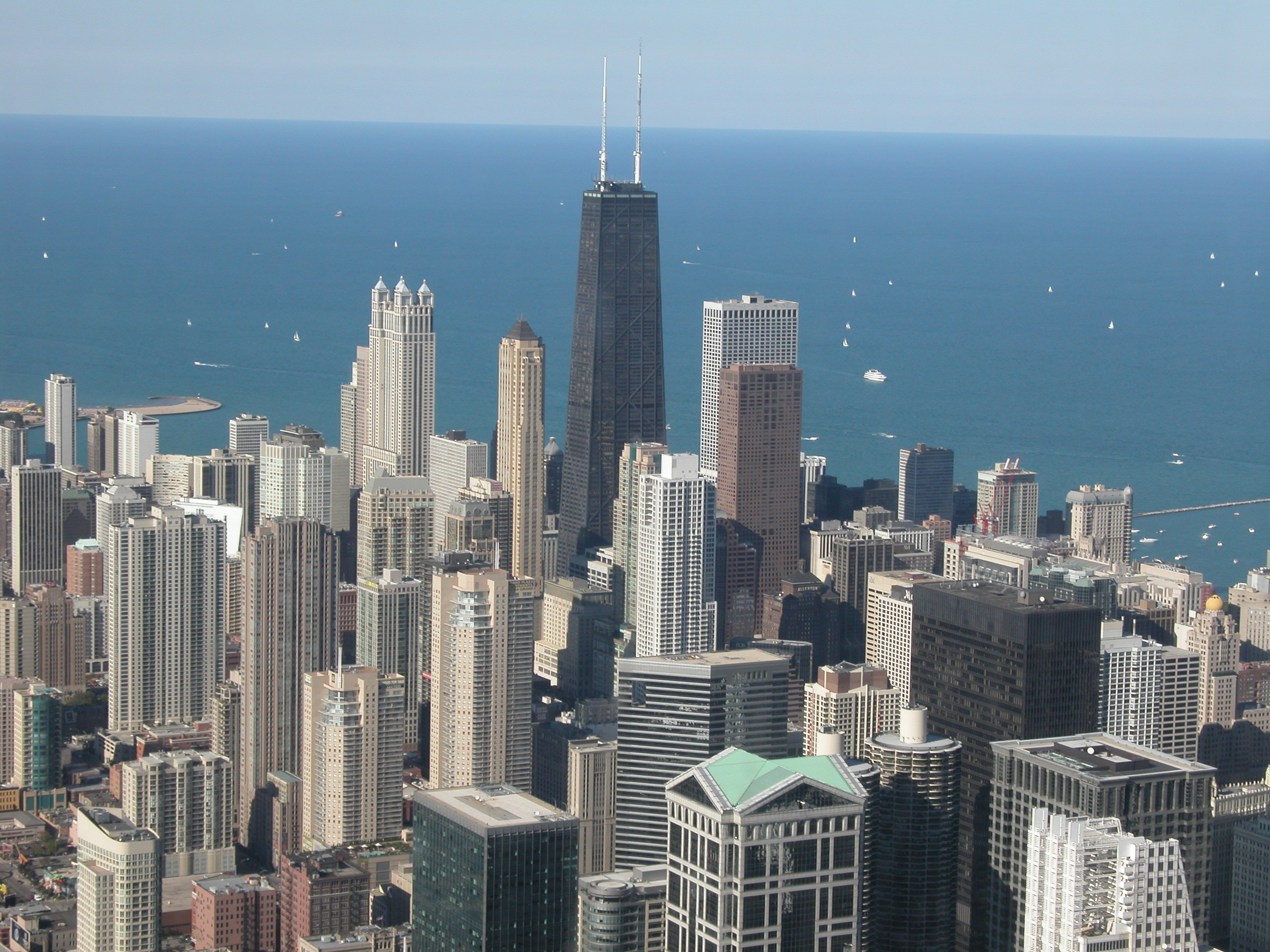 John Hancock center as seen from Sear's tower